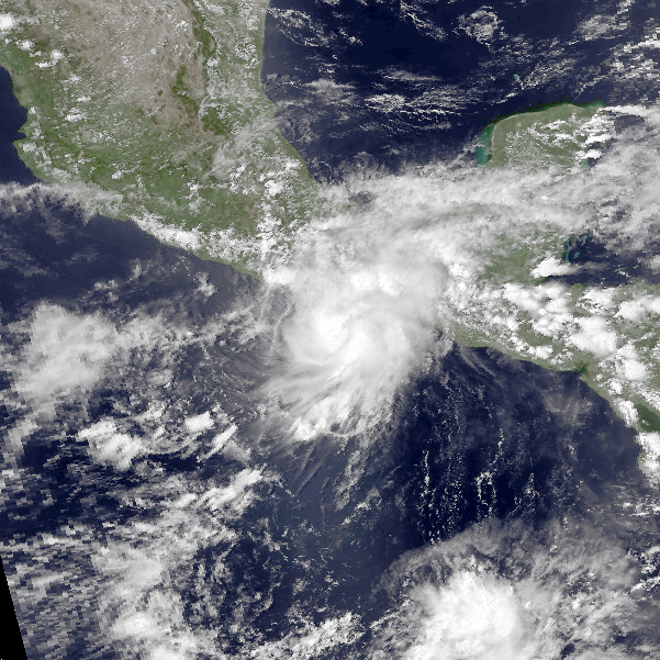 Tropical Storm Andres on June 3, 1997. At the time Andres had winds of 56 knts (64 mph, 104 kph), 1-min sustained and a pressure of 1001 mbar. Andres was about 95 miles away from land and 76 hours away from landfall. This image was taken by the NOAA-14 Satellite.